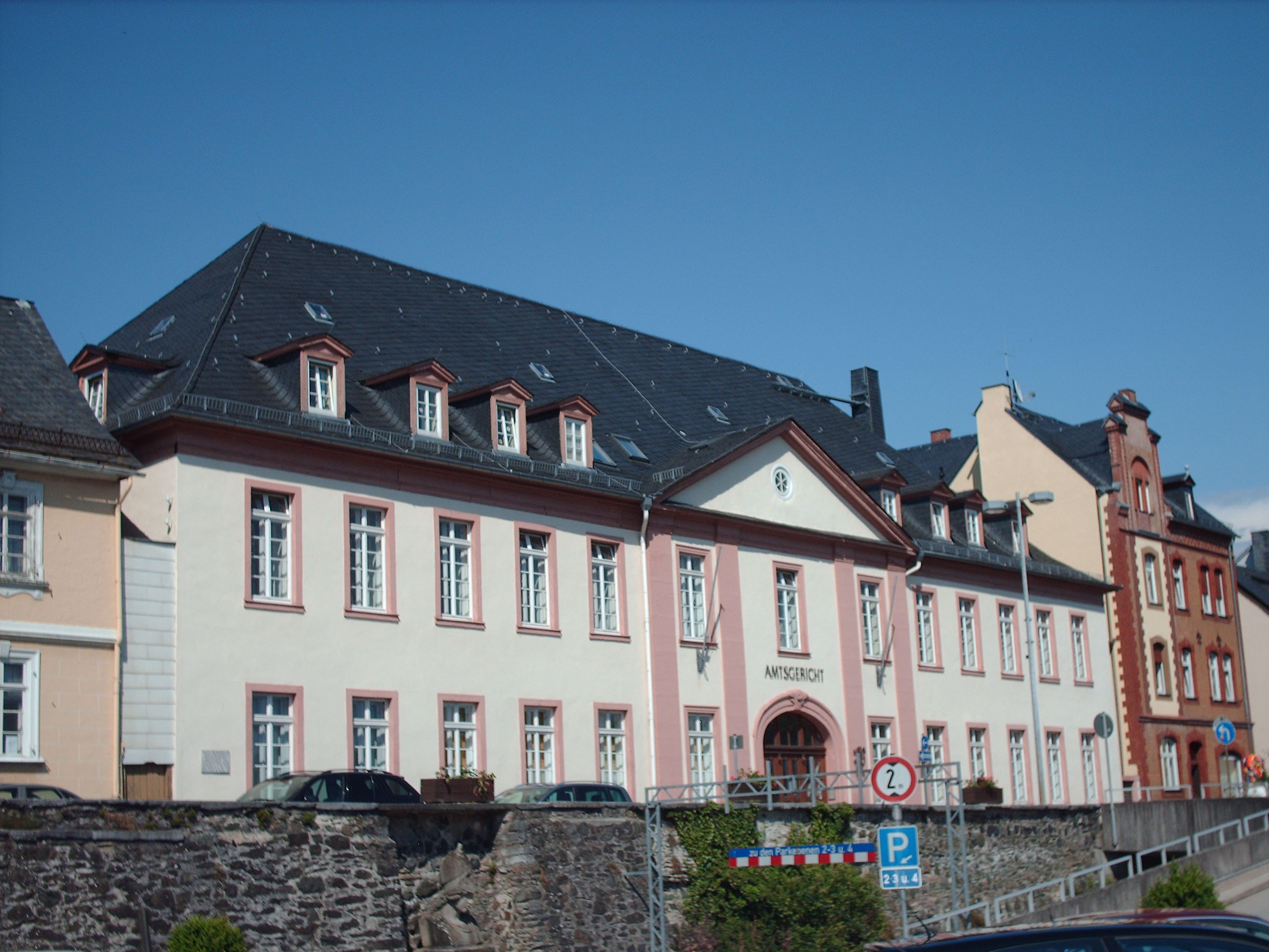 Courthouse Amtsgericht Weilburg, Weilburg, Germany check usage